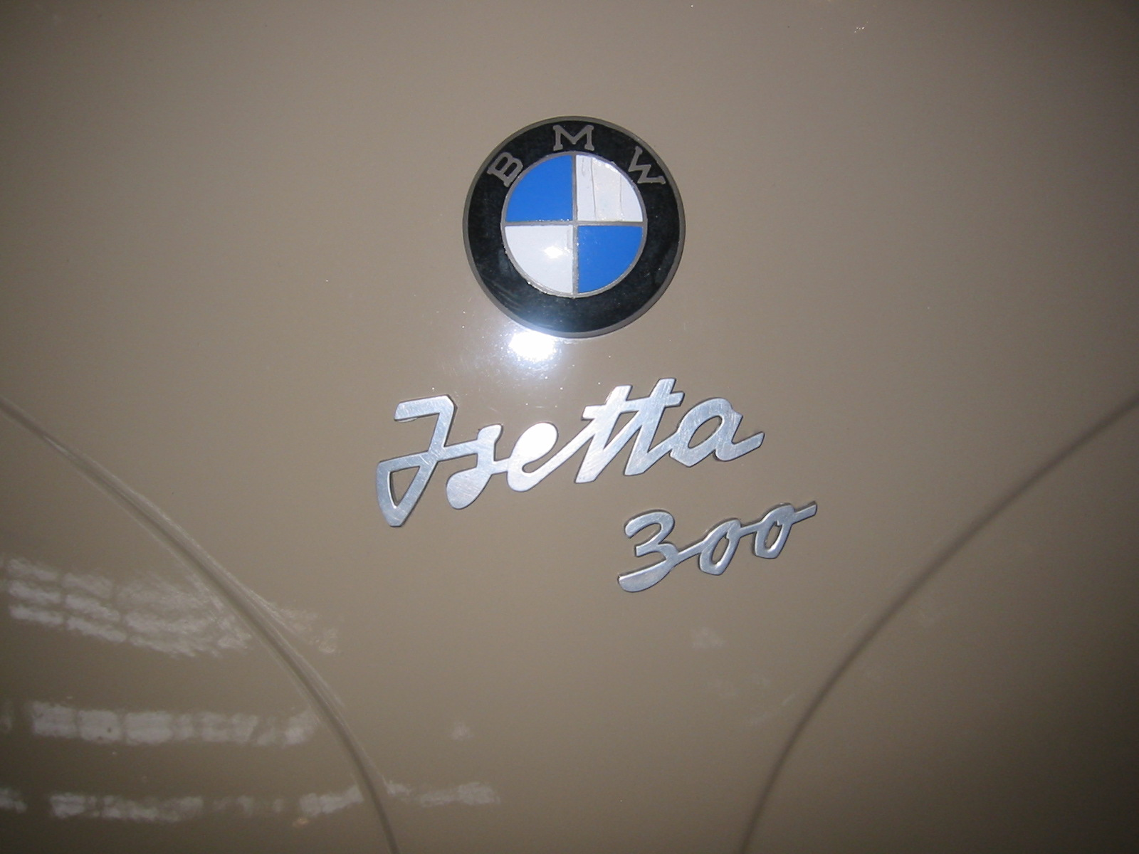 American Automobile Culture: Cars from the Lane Motor Museum Hood insignia and logo from a 1957 BMW Isetta (300) at the Lane Motor Museum in Nashville, Tennessee (USA) automobile, car, lane motor museum, museum, nashville, tennessee, usa, type, logo, automotive, typography, insignia